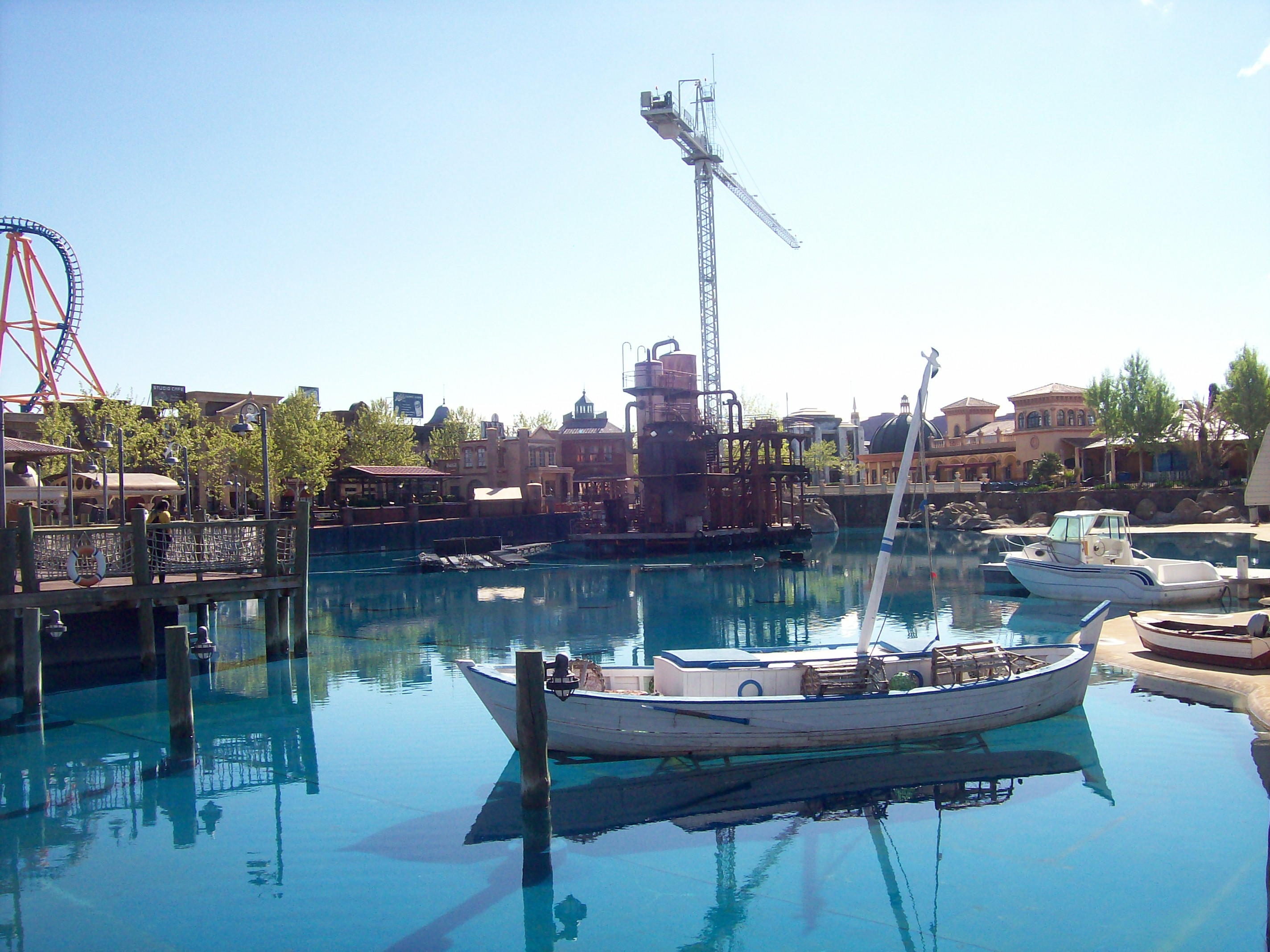 The lake in Parque Warner Madrid